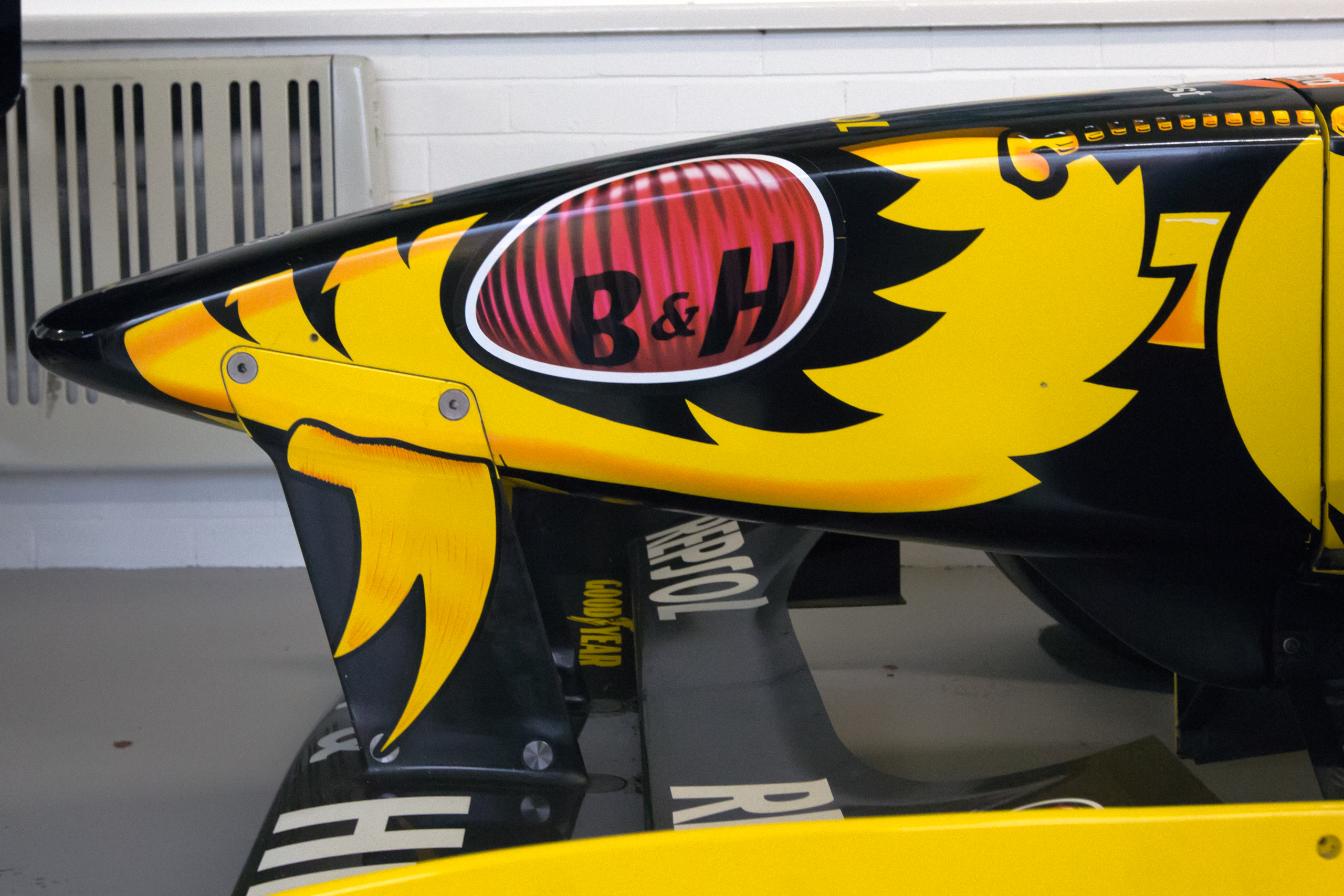 1998 Jordan 198 (#9 Damon Hill); front nose art